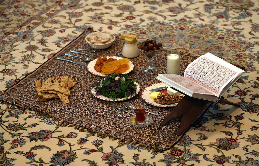 An Iranian iftar meal in Ramadan.